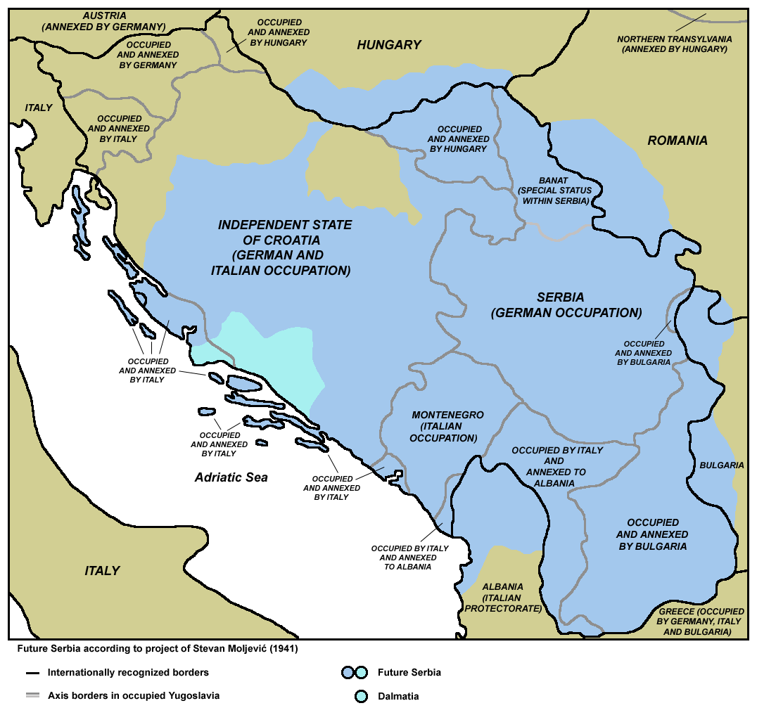 Future Serbia according to project of Stevan Moljević (1941).